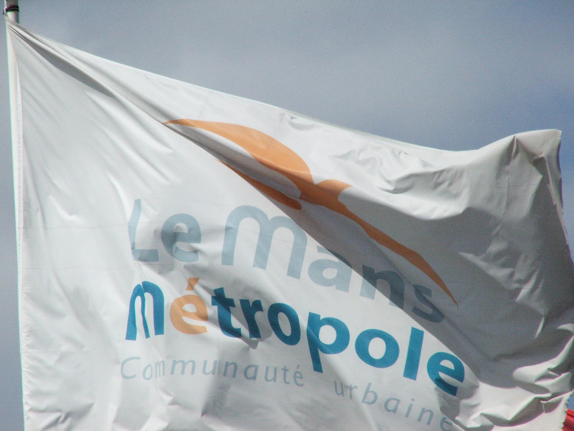 Un drapeau de la communauté urbaine du Mans pris flottant devant la salle de spectacle d'Atarès.